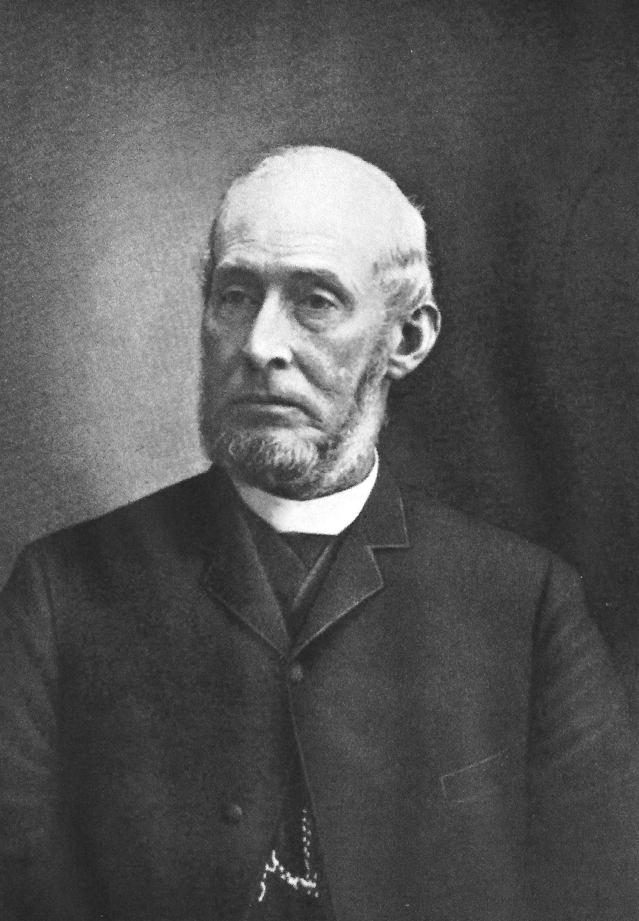 Formal portrait of Cicero Hunt Lewis, a prominent merchant and investor in Portland, Oregon, United States, between 1851 and 1897. His business firm was Allen & Lewis, a large wholesale house.